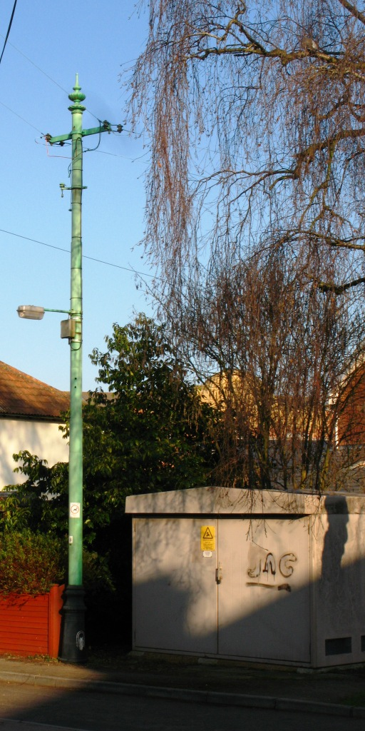 A lamp post in Greenway Crescent, Taunton, Somerset. It was originally used to support the overhead power wires of the Taunton Tramway.